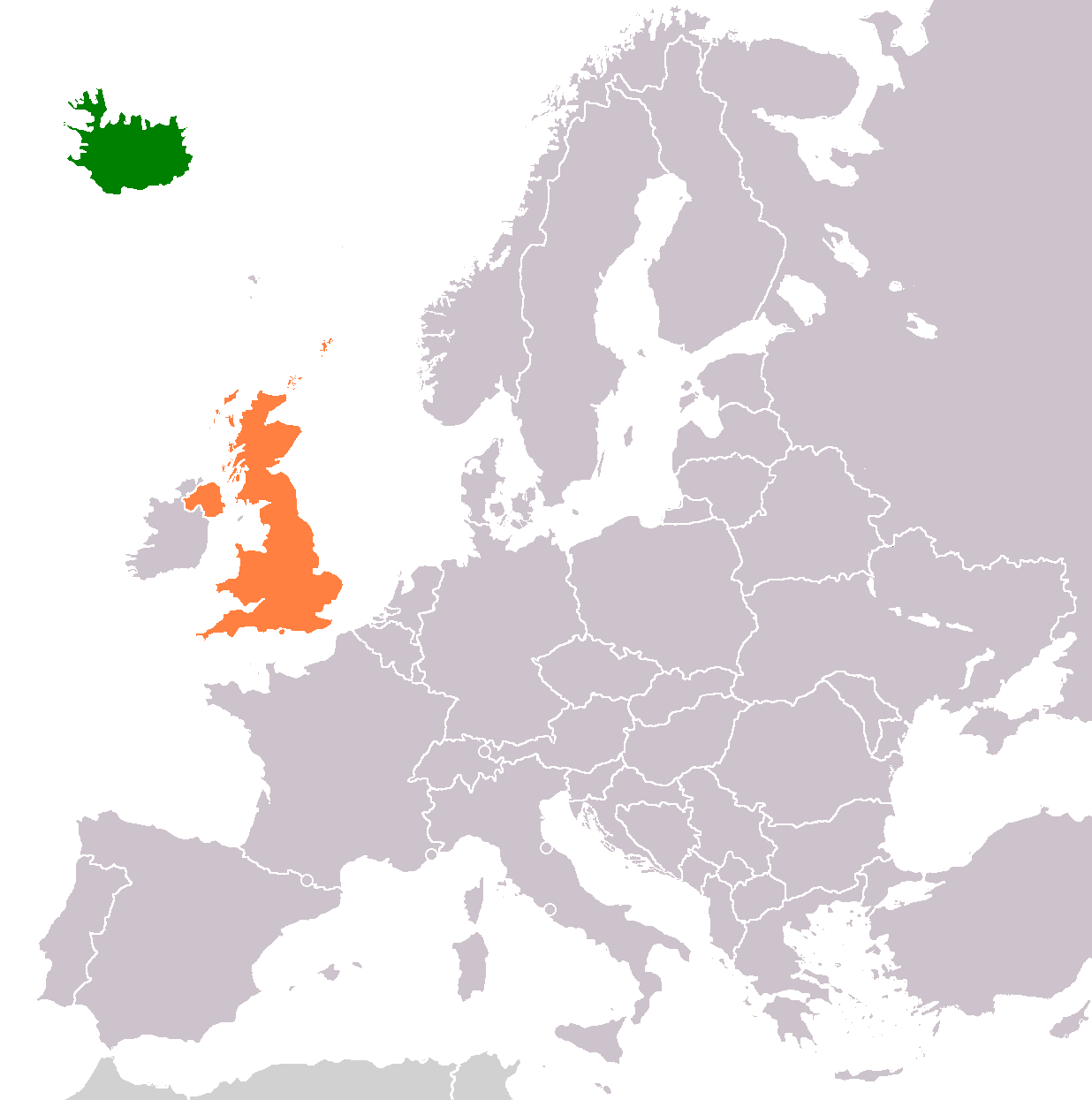 Location of Iceland and the United Kingdom